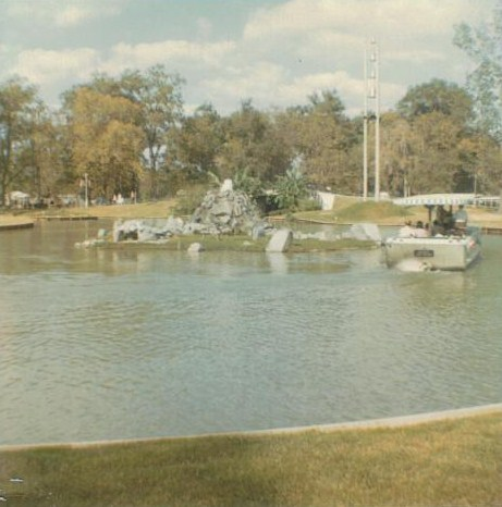 Boat ride in pond at Louisiana Purchase Gardens and Zoo, Monroe, Louisiana, 1971. I took photo myself with Kodak camera.